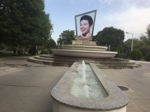 Fountain Tose Proeski in Novo Lisice